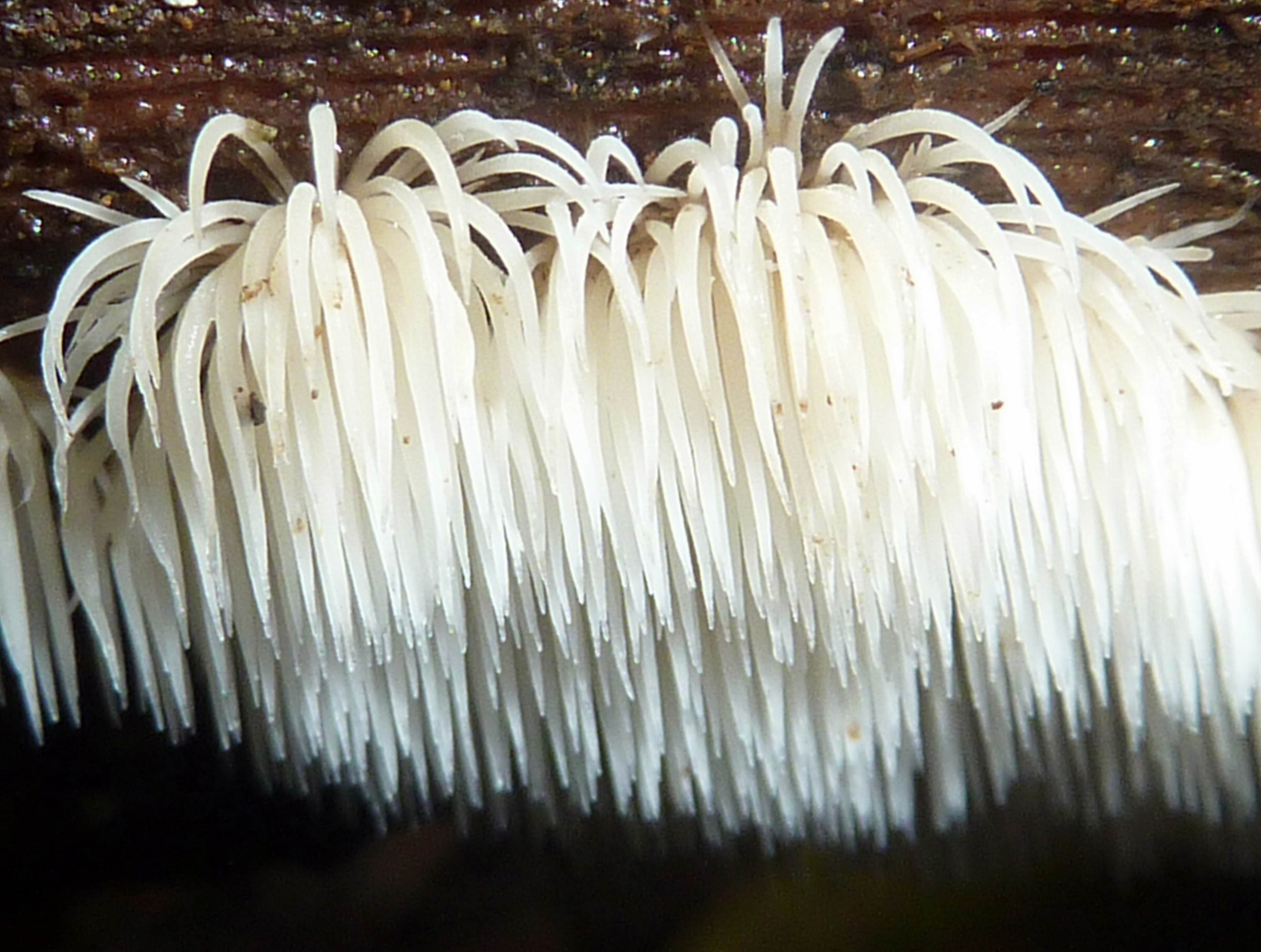 A fruit body of the clavarioid fungus Deflexula subsimplex Henn. Photographed in Gamboa, Balboa District, Panama Province, Panama.